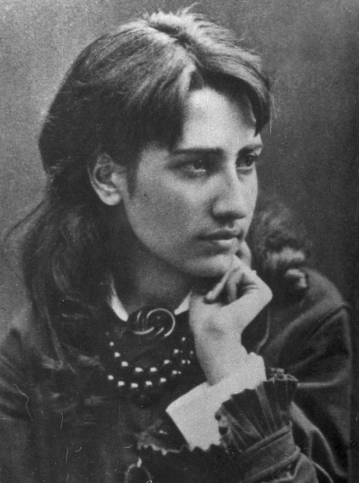 Georgian pedagogue and biologist, Olga Guramishvili-Nikoladze, wife of Niko Nikoladze